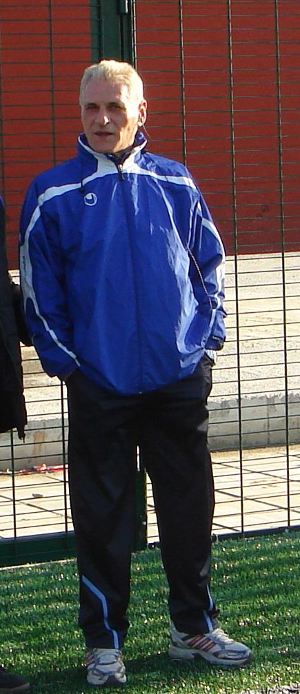 Zhivko Gospodinov (born 6 September 1957 in varnian village Vladimirovo) - retired Bulgarian football player. Gospodinov was an attacking midfielder and playmaker. He played with PFC Spartak Varna and earned 136 caps for the Bulgarian championship. Gospodinov played for Bulgaria national football team (39 caps/6 goals)[1] and was a participant at the 1986 FIFA World Cup.[2]